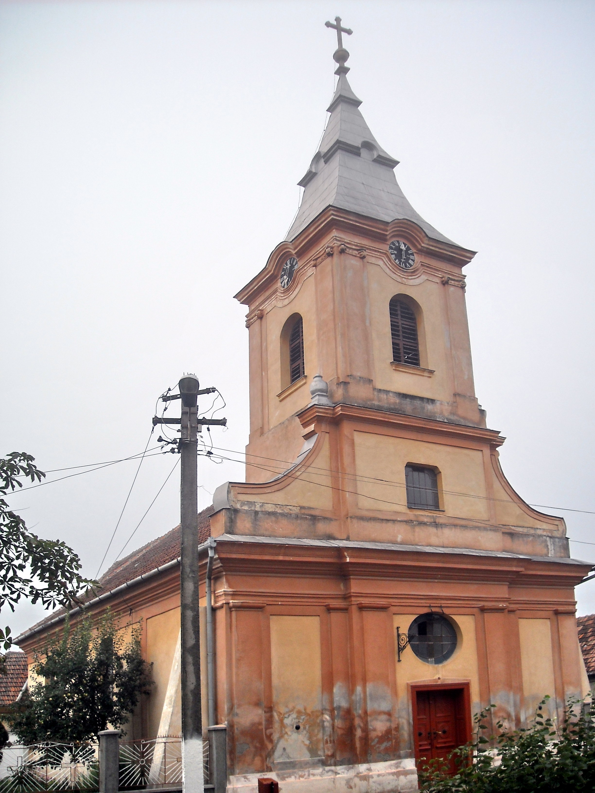 Roman Catholic church in Fântânele (Engelsbrunn, Angyalkút), Arad county, Romania